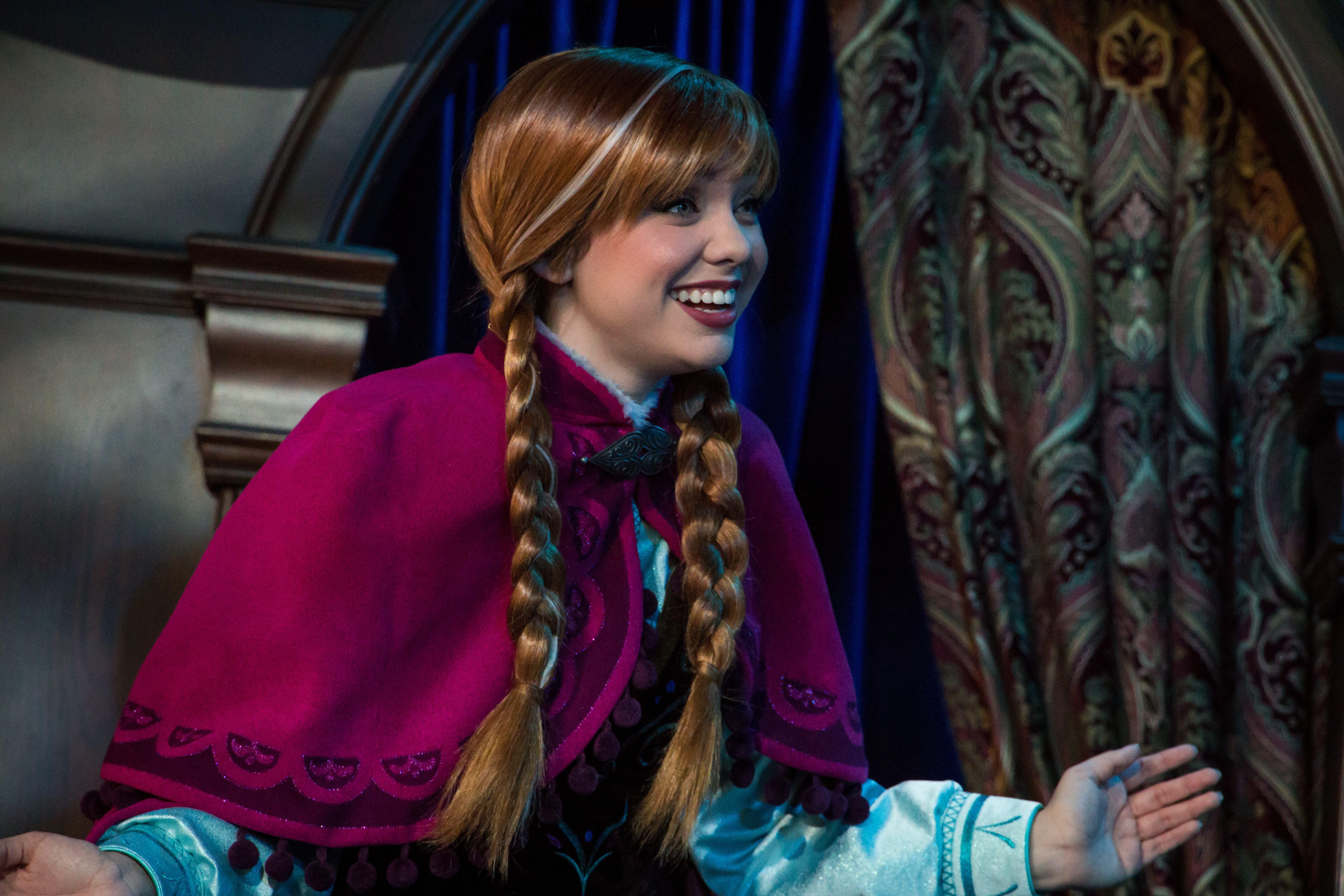 The tale of "Frozen" performed in the Royal Theatre in Fantasy Faire at Disneyland. So awesome!